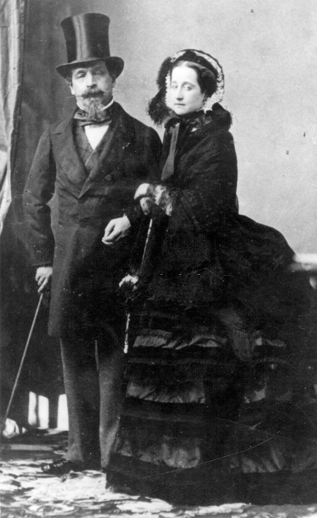 French emperor Napoléon III and his wife Eugénie